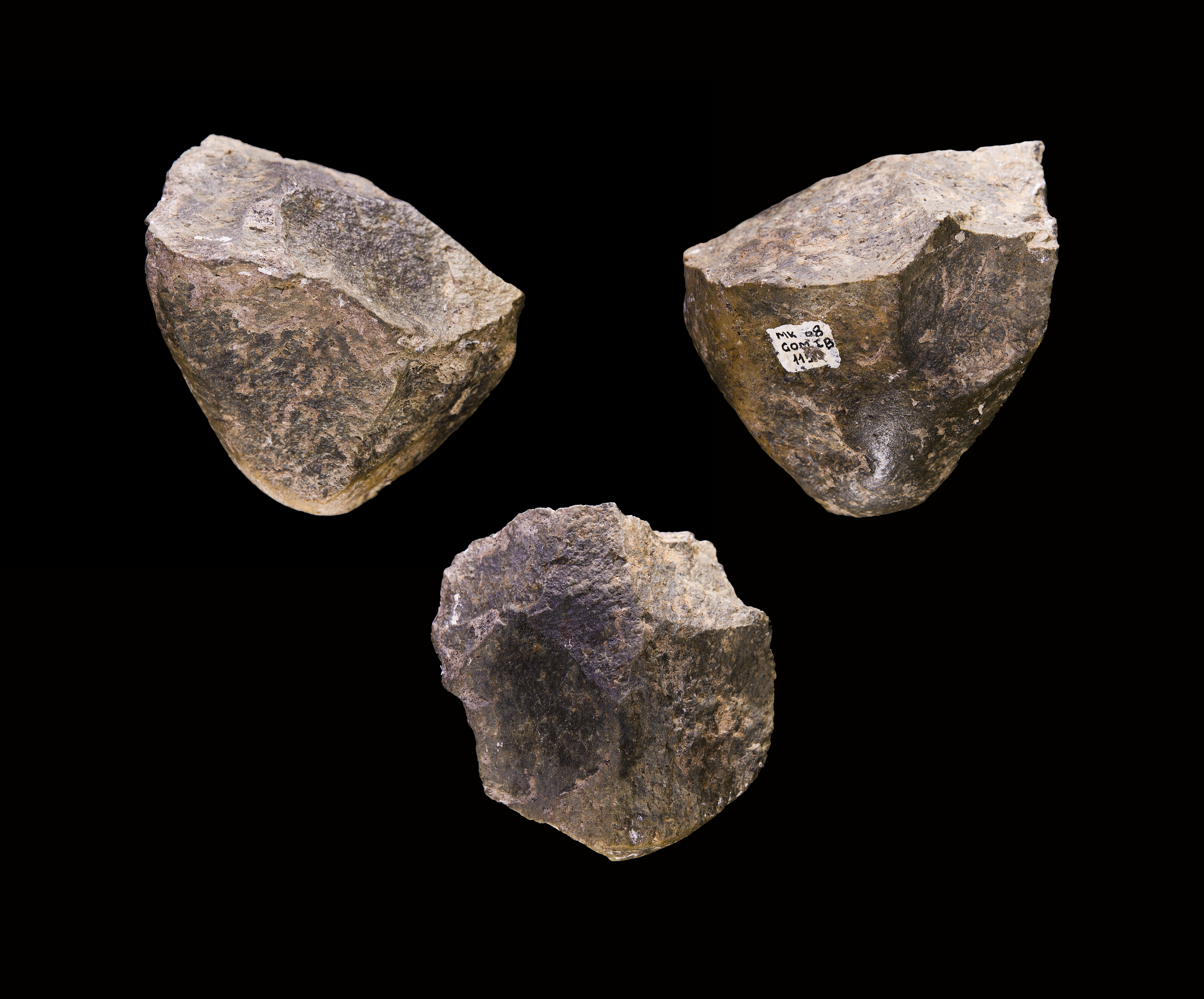 Chopper: one of the earliest examples of stone industry. Original - private collection. Location: Melka Kunture, Ethiopia. Stage: Oldowan to 1.7 million years before our era. Size: 77x70x65 mm